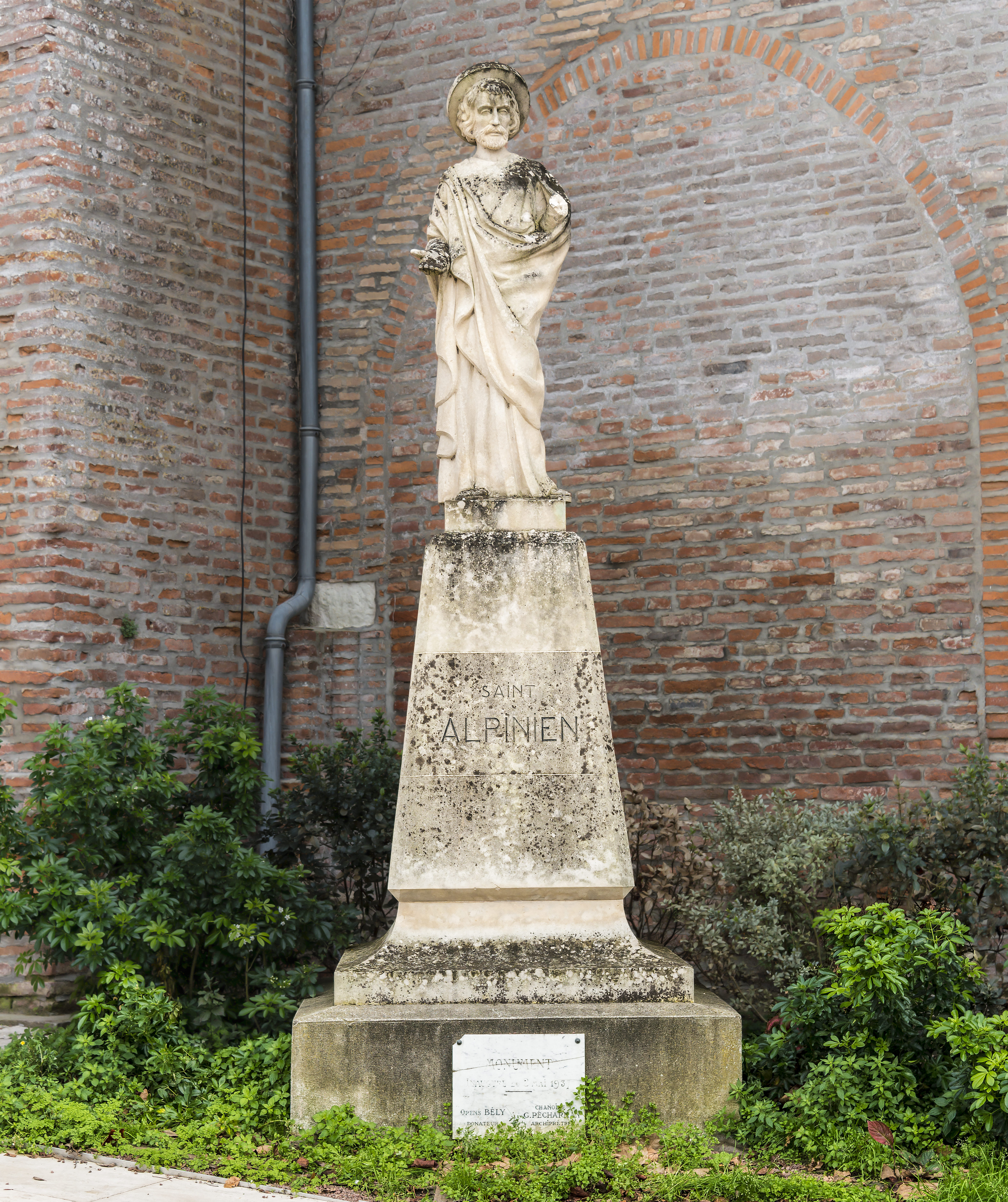 Castelsarrasin Tarn-et-Garonne, France - Église Saint-Sauveur - Monument to saint Alpinien. Saint Alpinien (3rd century) patron saint of the city of Castelsarrasin. Companion with saint Austriclinien of Saint Martial he is native of Orient. They are cited in the sixth century by Gregory of Tours. Saint Alpinien is sometimes represented with a hammer because, according to the legend, he would have sprung a spring in Tarn (commune of Aixe-sur-Vienne) by throwing it. He was buried in the abbey of Saint-Martial in Limoges, then in Ruffec (Indre). His memory is invoked to heal the possessed. Relics of the saint are preserved in Limoges, Ruffec (Indre), Rouffignac (Dordogne), Castelsarrasin (Tarn-et-Garonne). The right arm is preserved since the 13th century in the church Saint Sauveur of Castelsarrasin Saint Alpinien is celebrated on April 27th.